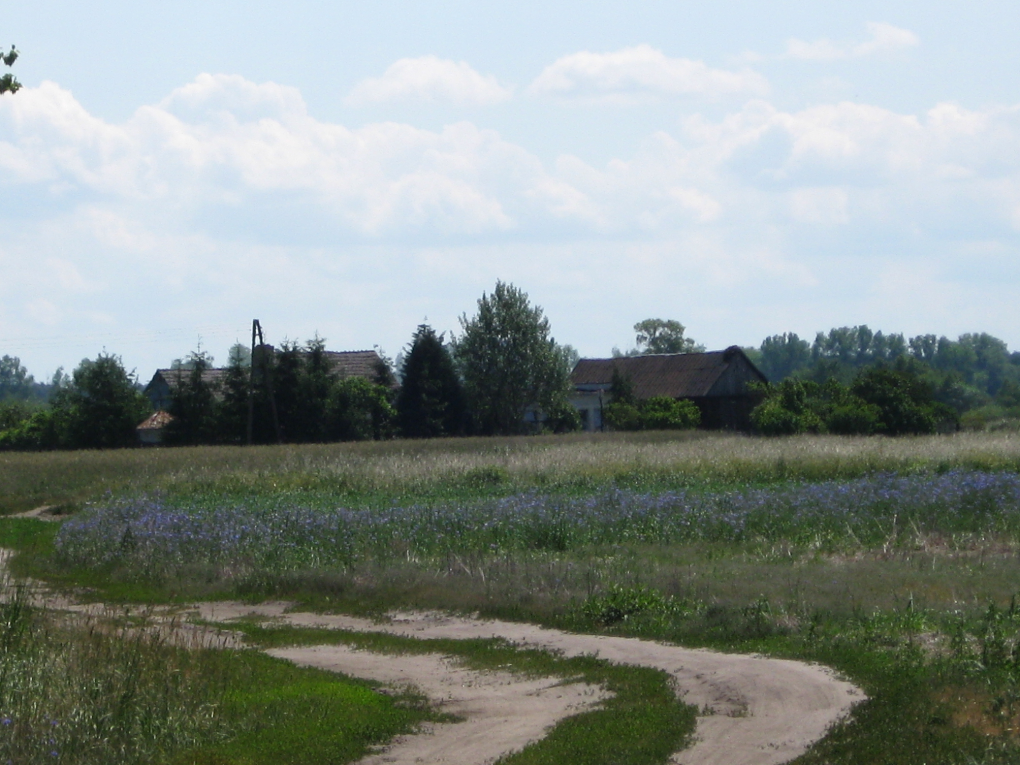 Photo hamlet: Iwno